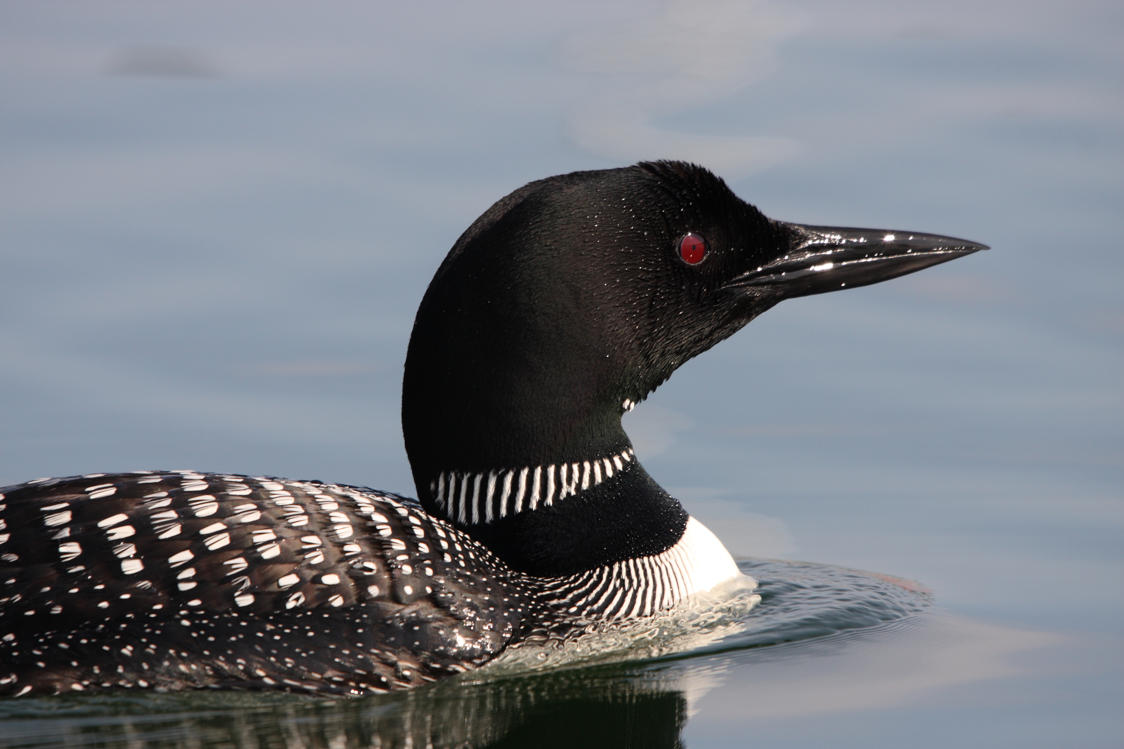 Common Loon, Blue Sea Lake, Quebec, Canada